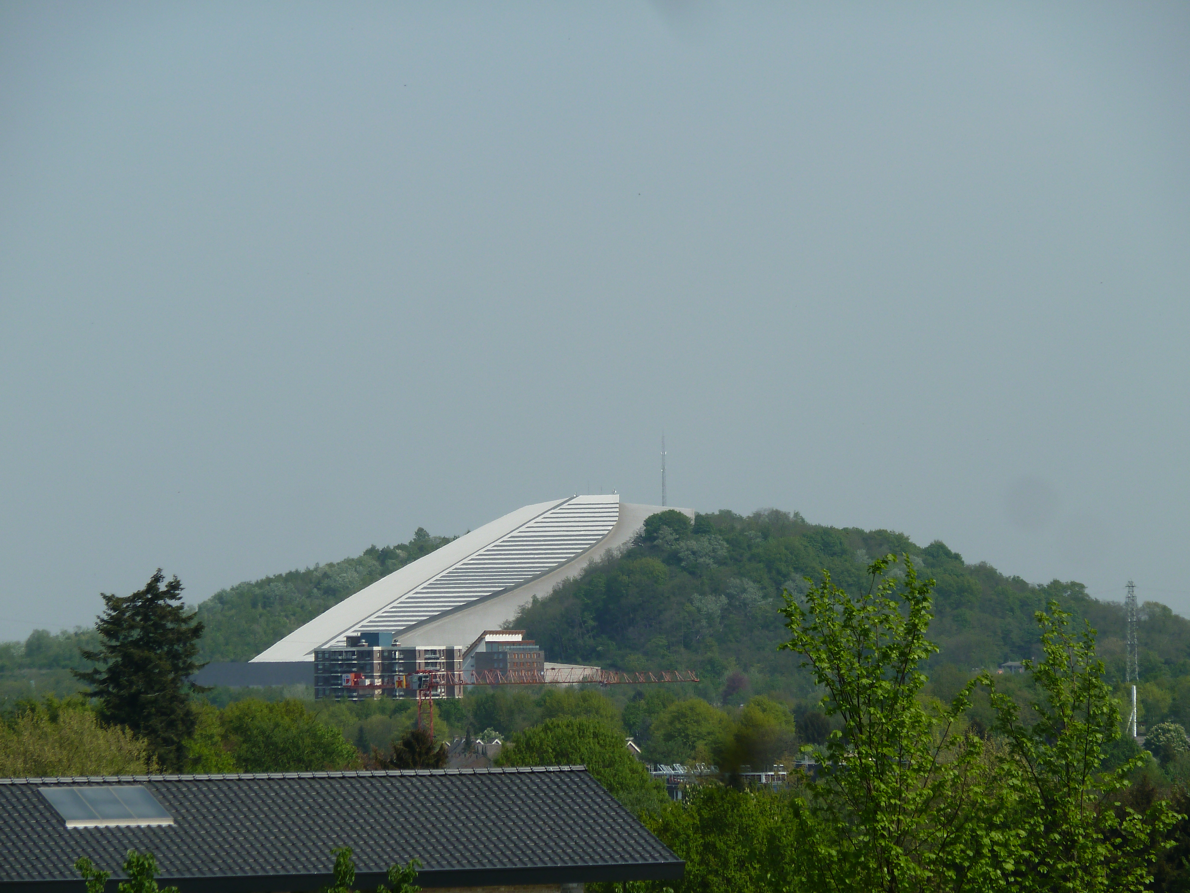 SnowWorld, Landgraaf, Limburg, the Netherlands